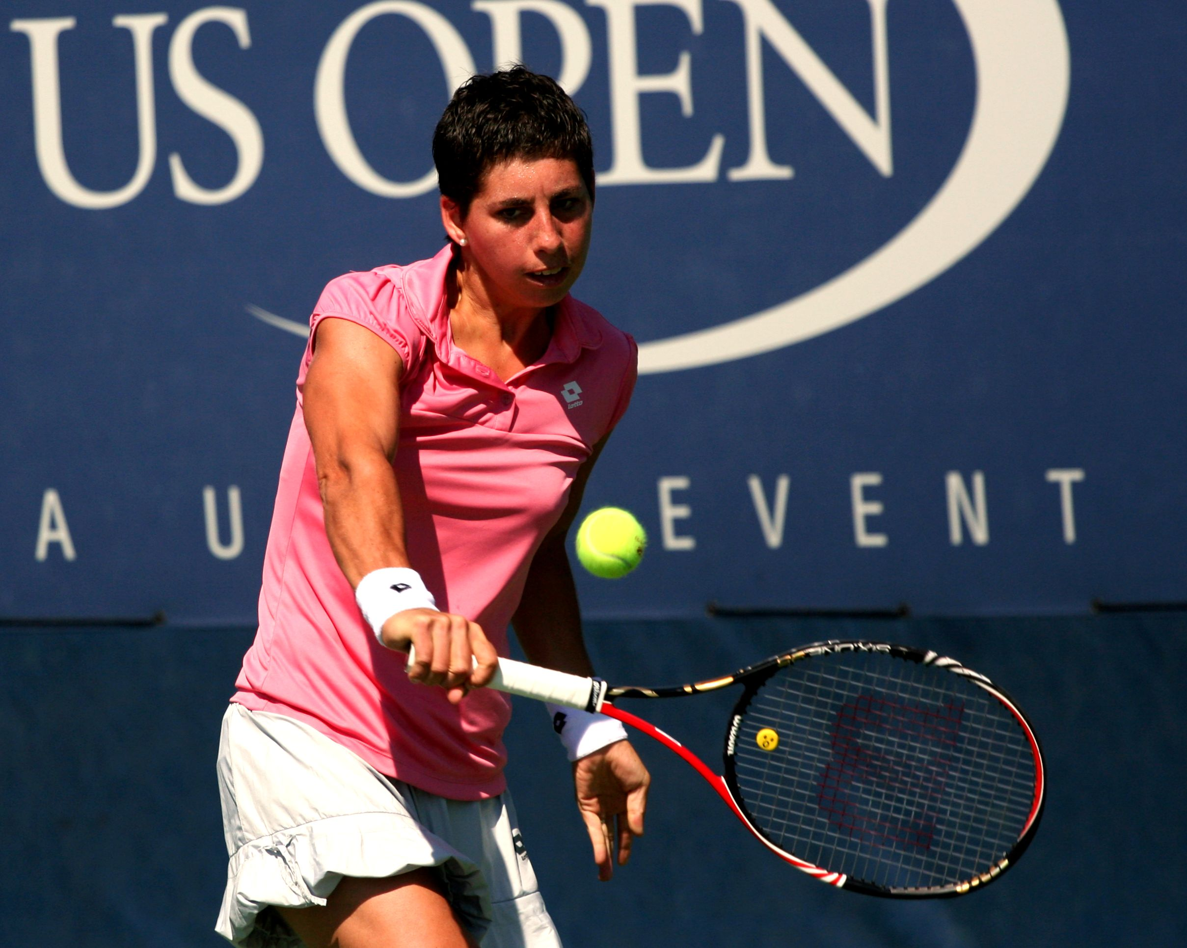 Carla Suarez Navarro at the 2011 U.S. Open Thursday, Sept. 1, 2011